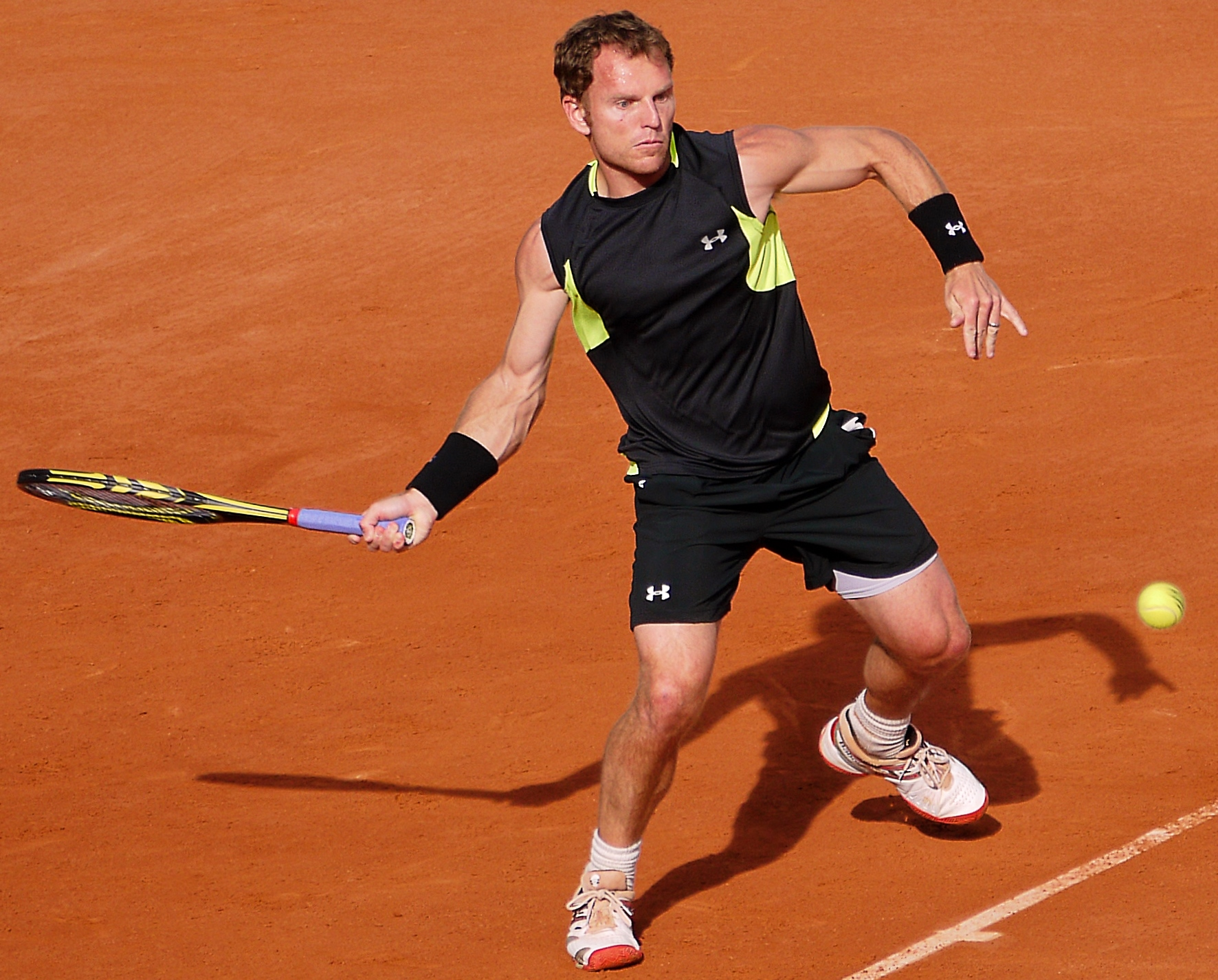 Michael Russell (USA) playing at Roland Garros 2011 - mardi 24 mai - 1er tour - Court Philippe Chatrier